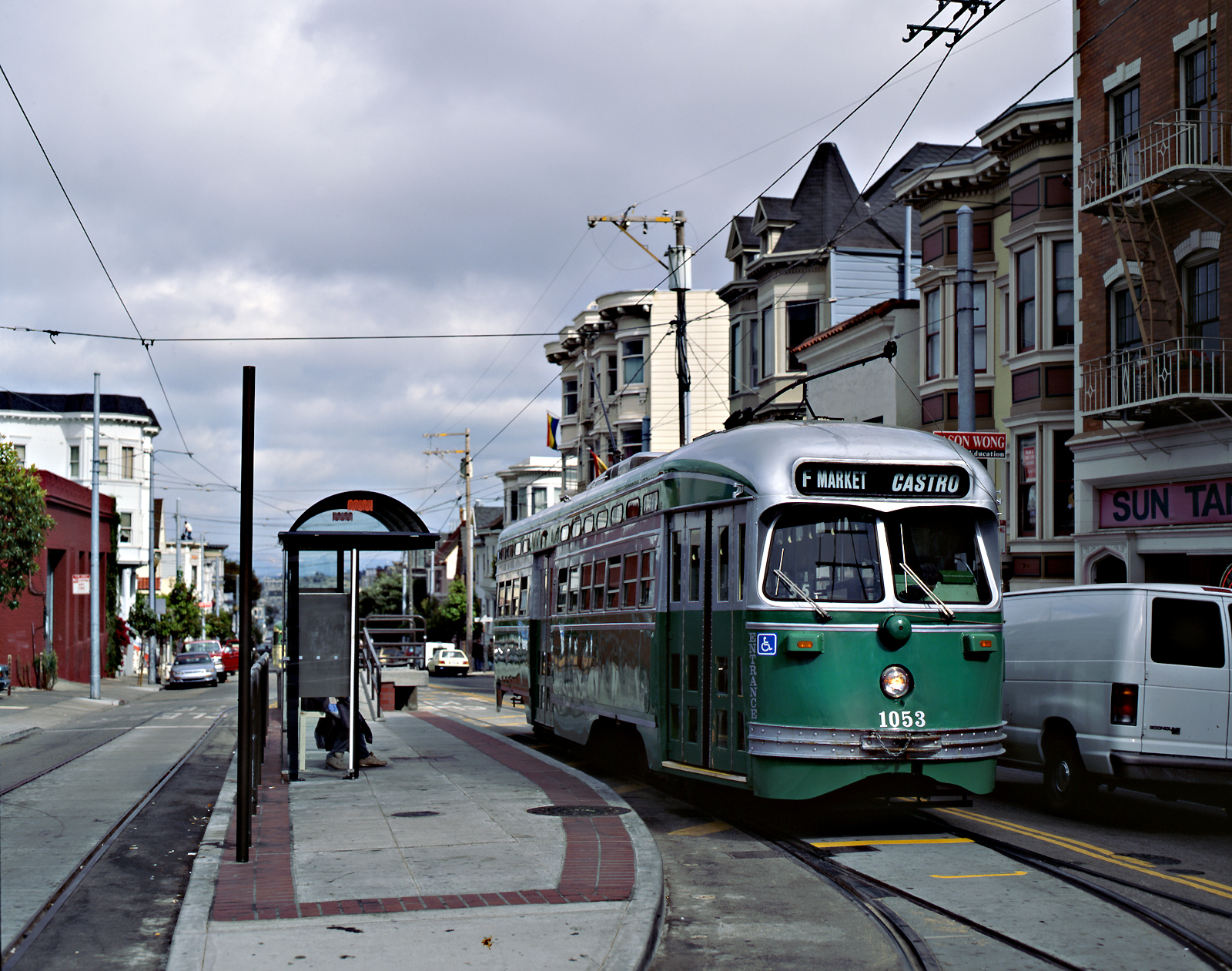 San Francisco, USA, PCC-type streetcar #1053 at 17th and Catro in 1999, on the F-Market heritage streetcar line (which opened in 1995). Car 1053's current paint scheme is in tribute to the Brooklyn (New York) streetcar system, but this car actually spent its entire original service career in Philadelphia, and was built in 1948 for the Philadelphia Transportation Company. It was acquired (from SEPTA in Philadelphia) by San Francisco Muni in 1992 and refurbished and repainted for eventual use on the F-Market heritage streetcar line.